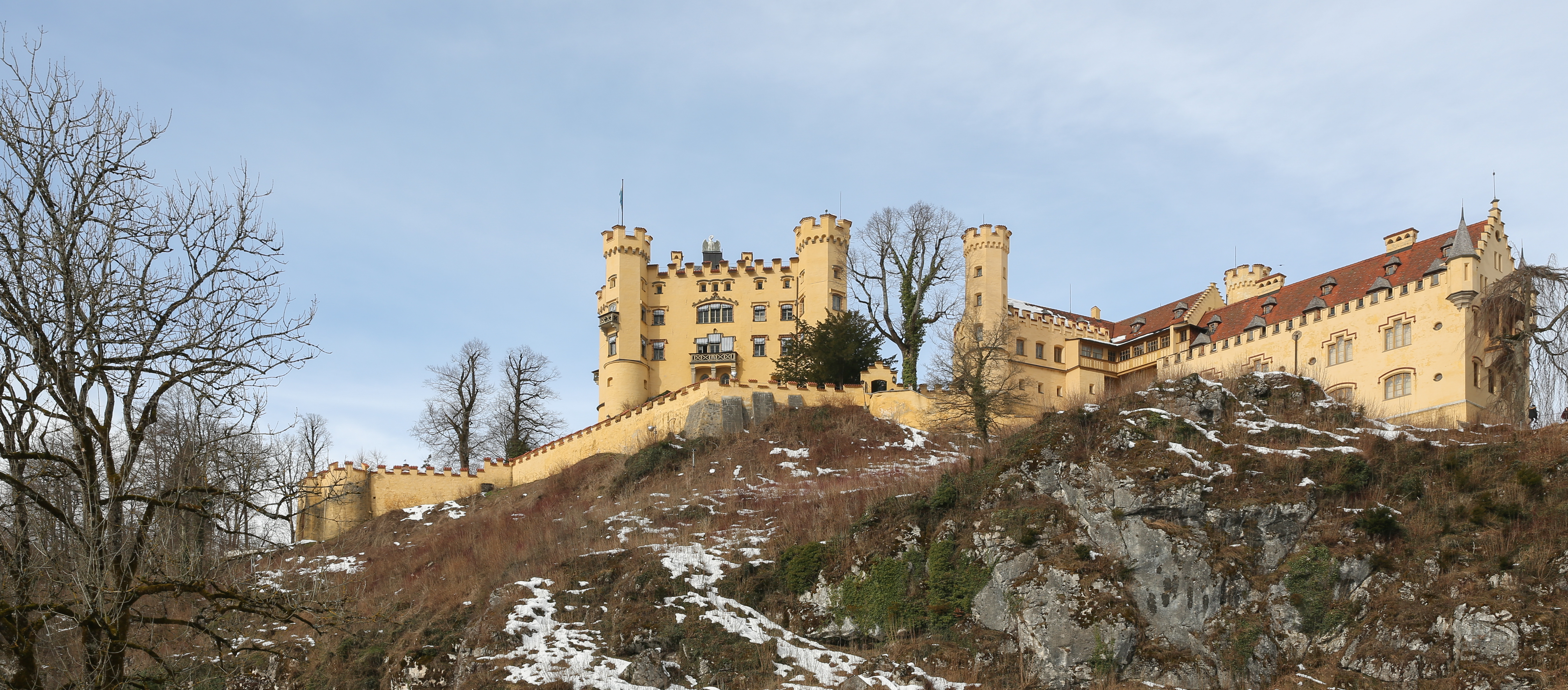 Hohenschwangau, Schwangau, Germany